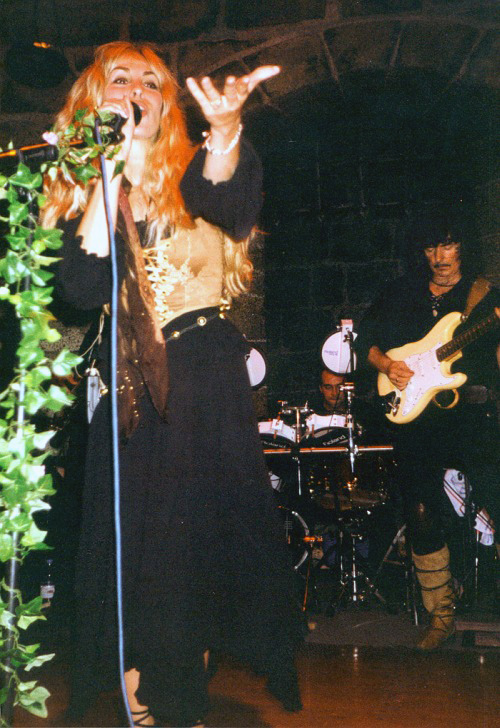 Music band "Blackmore's Night" live in Heidelberg/Germany, July 24, 2002